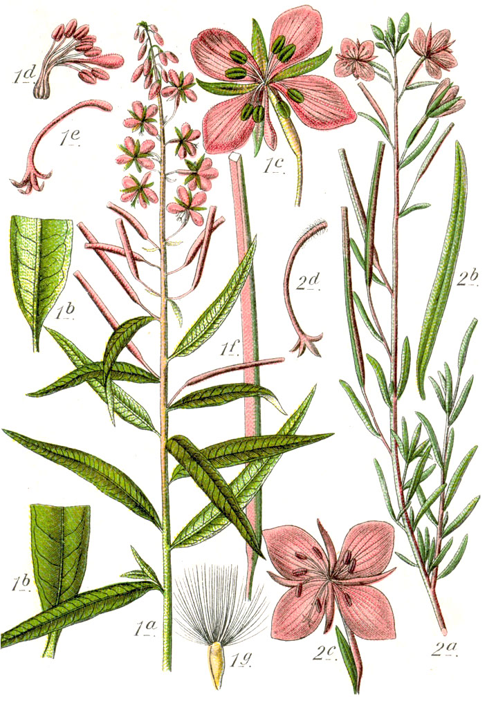 1. Chamaenerion angustifolium L., syn. Epilobium angustifolium (L.) Scop. 2. Epilobium dodonaei Vill., syn. Chamaenerion palustre auct. Original Caption 1. Oleanderröschen, Epilobium angustifolium 2. Dodonaeusröschen, Epilobium dodonaei